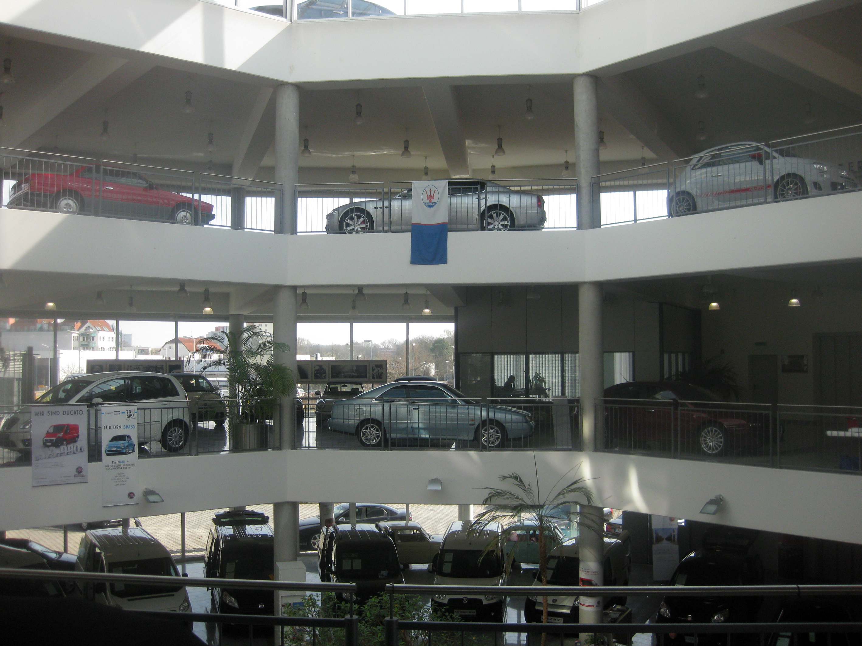 Interior of a car dealer in Offenbach am Main. Some of the cars are historic cars and not for sale.